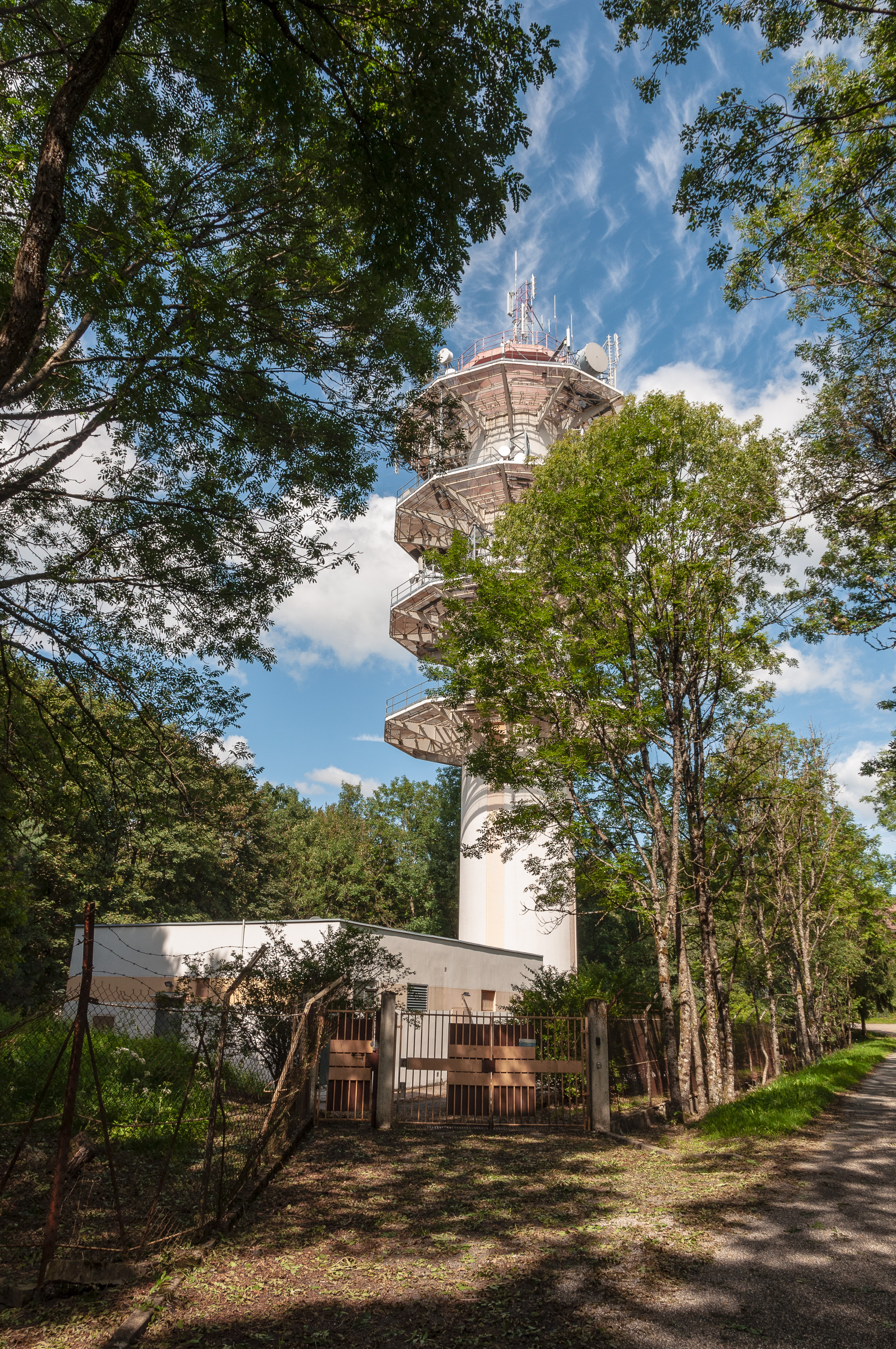 The mobile phone antenna number 463688 is located in the town of Belfort and rises to 52.7 meters in height.